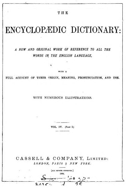 The Encyclopaedic Dictionary by Robert Hunter Vol IV 1884. Title Page